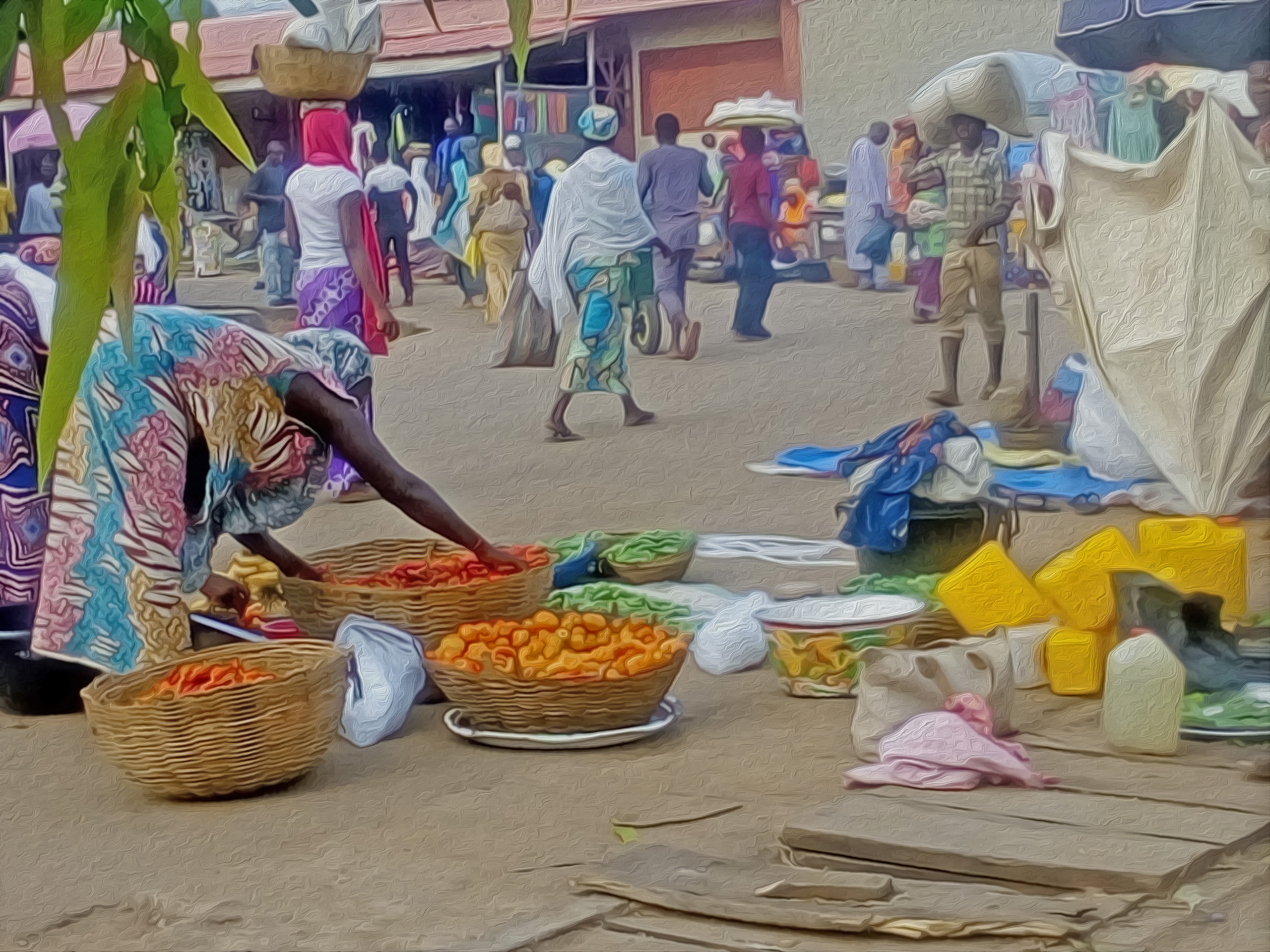 this photo-shot showcases early morning market place startup on a market day in Lokoja, Kogi state Nigeria This is an image of "African people at work" from Nigeria